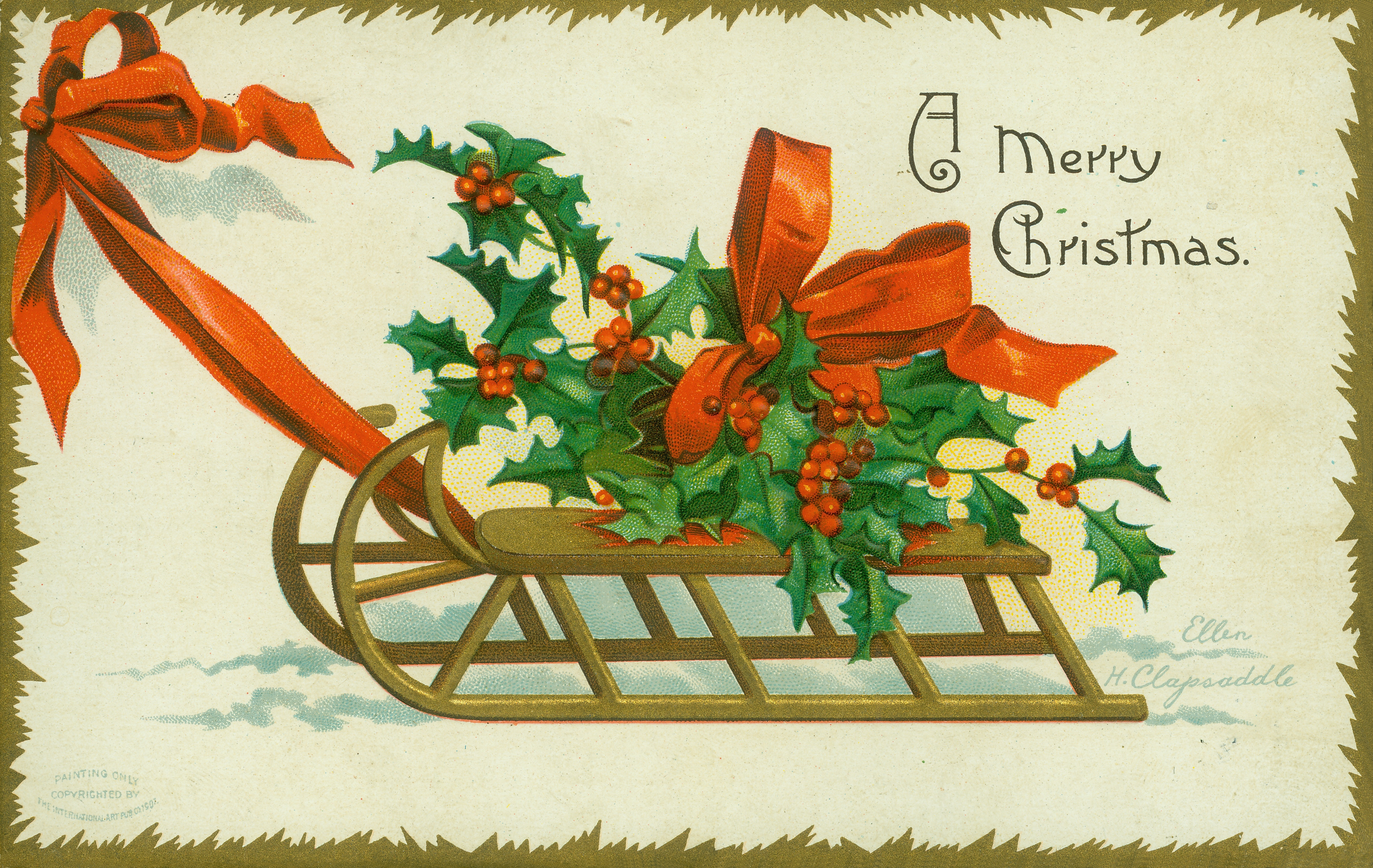 Title: A Merry Christmas. (Sled with holly).